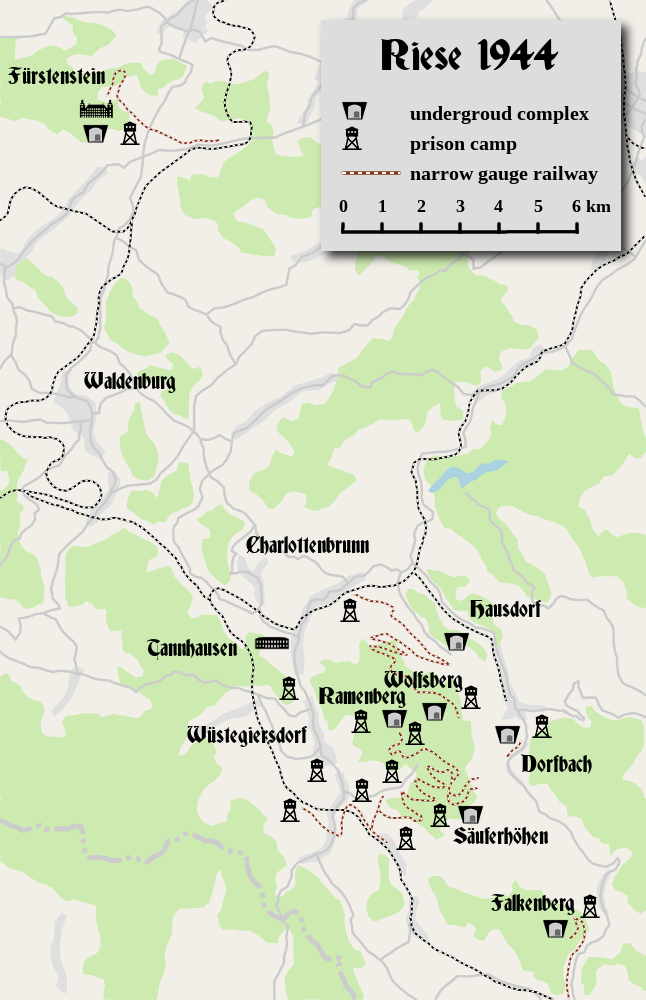 Map of Project Riese in 1944.